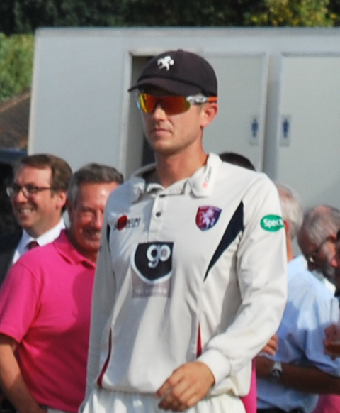 Joe Denly at the Kent County Cricket Ground, Beckenham in September 2016